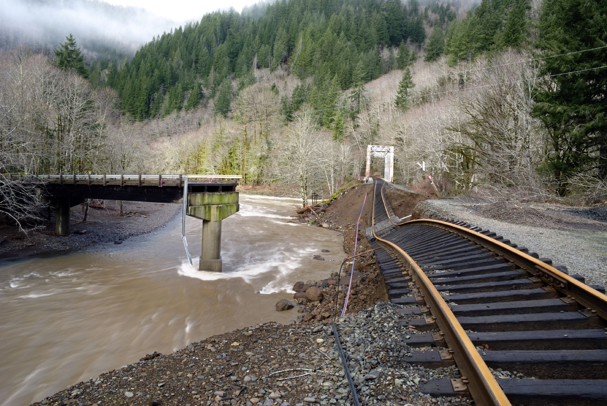 The muddy Salmonberry River and the damaged Port of Tillamook Bay Railroad line in the Northern Oregon Coast Range in the winter following the Great Coastal Gale of 2007